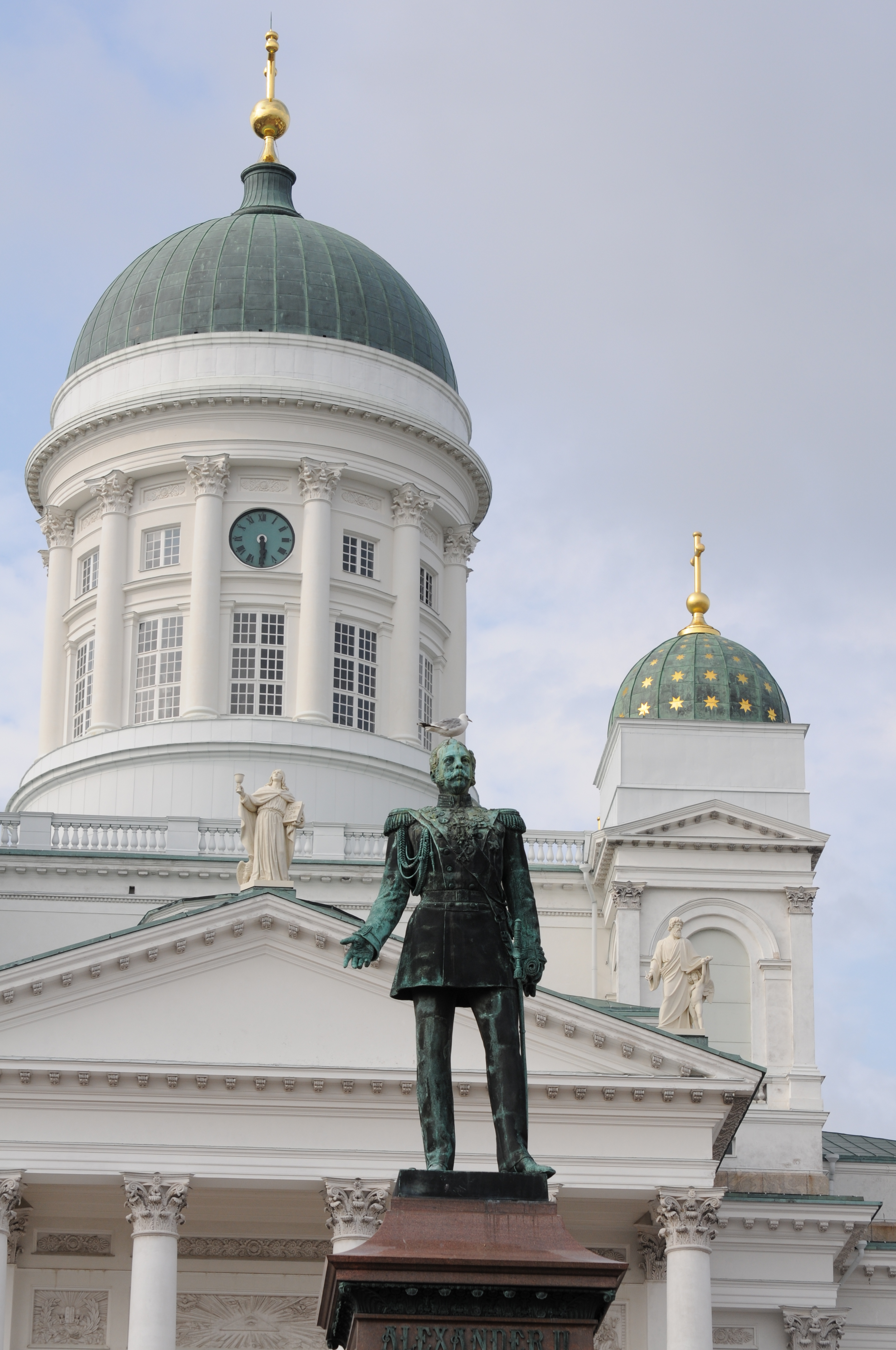 Statue of Alexander II, in background Helsinki Lutheran Cathedral